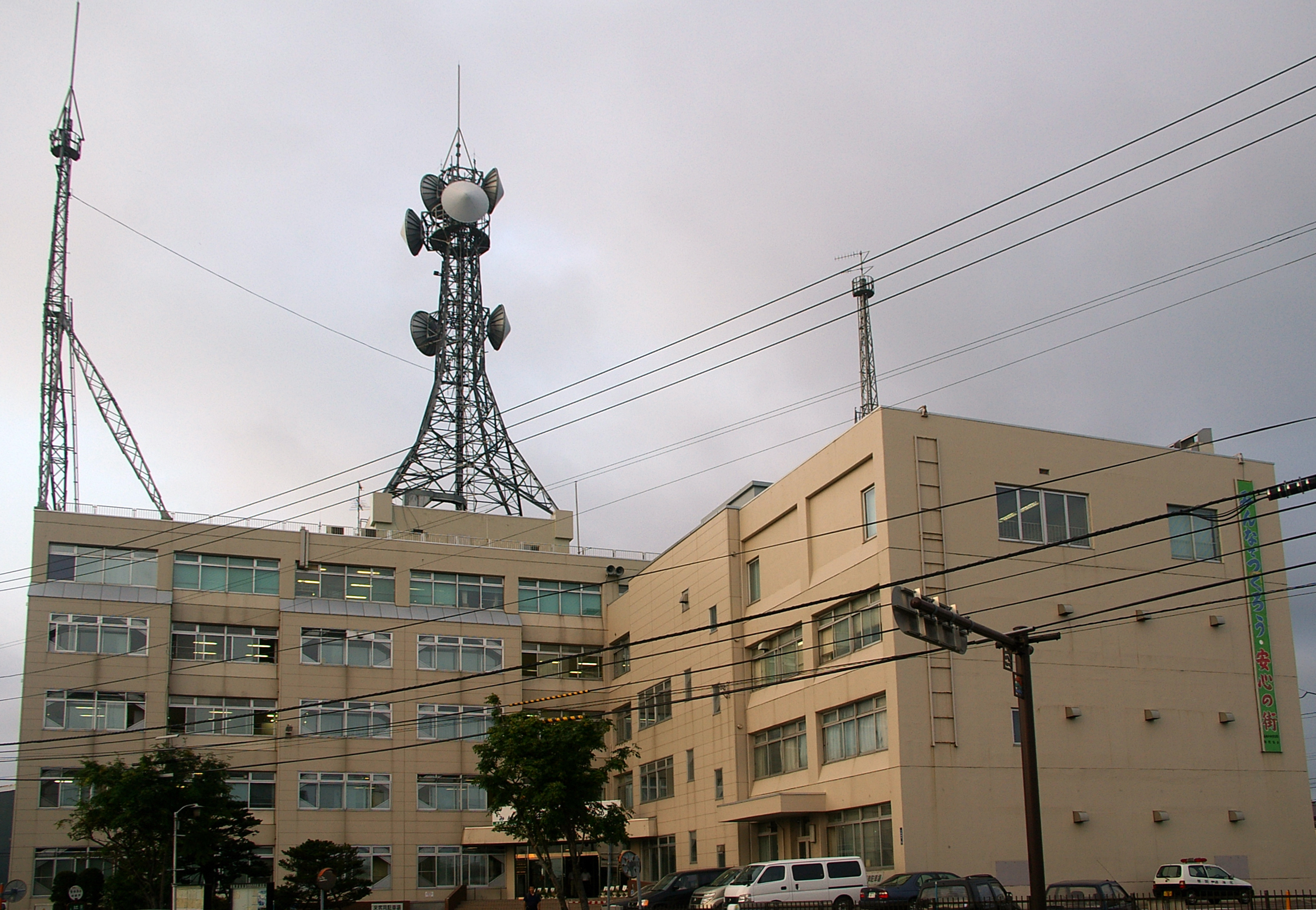 Photograph of Hokkaido Hakodate Area Police Headquarters Building, including Hakodate Central Police Station, in Hakodate, Hokkaido, Japan.